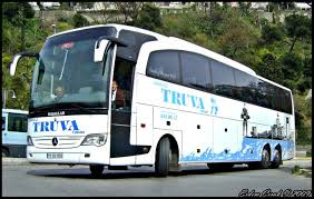 my concept